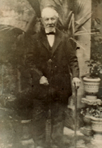 Francesco Saverio Briffa Founder of the Società Filarmonica Maria Mater Gratiæ